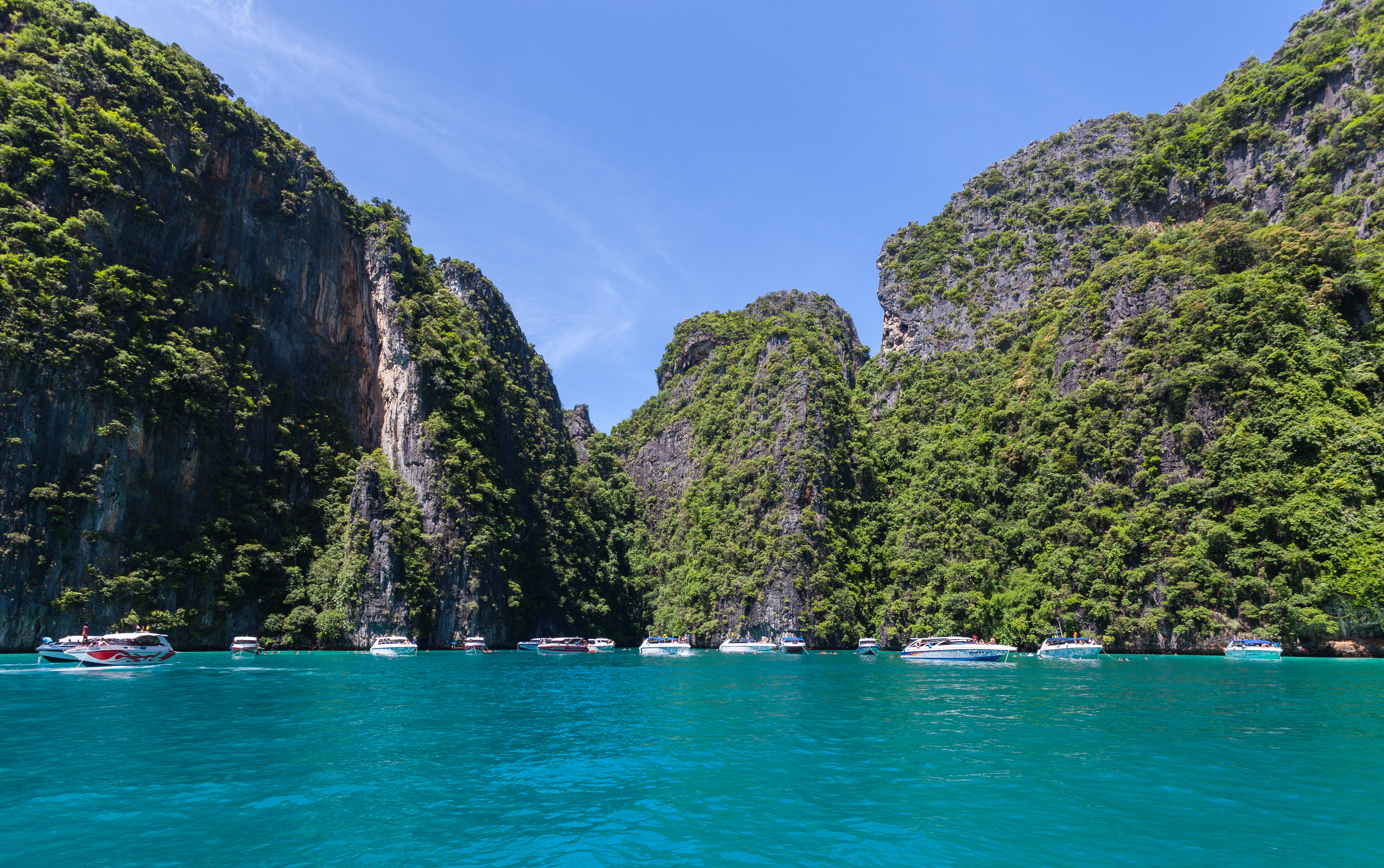 Phi Phi Lay Island, Thailand